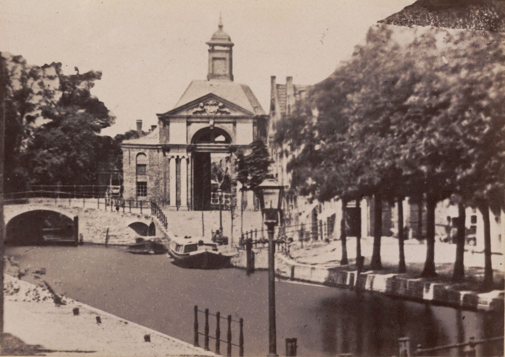 Photograph of the Leiden Marepoort city gate by Jan Goedeljee